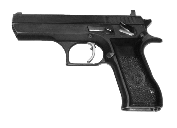 Jericho 941F with frame mounted safety and no decocker.